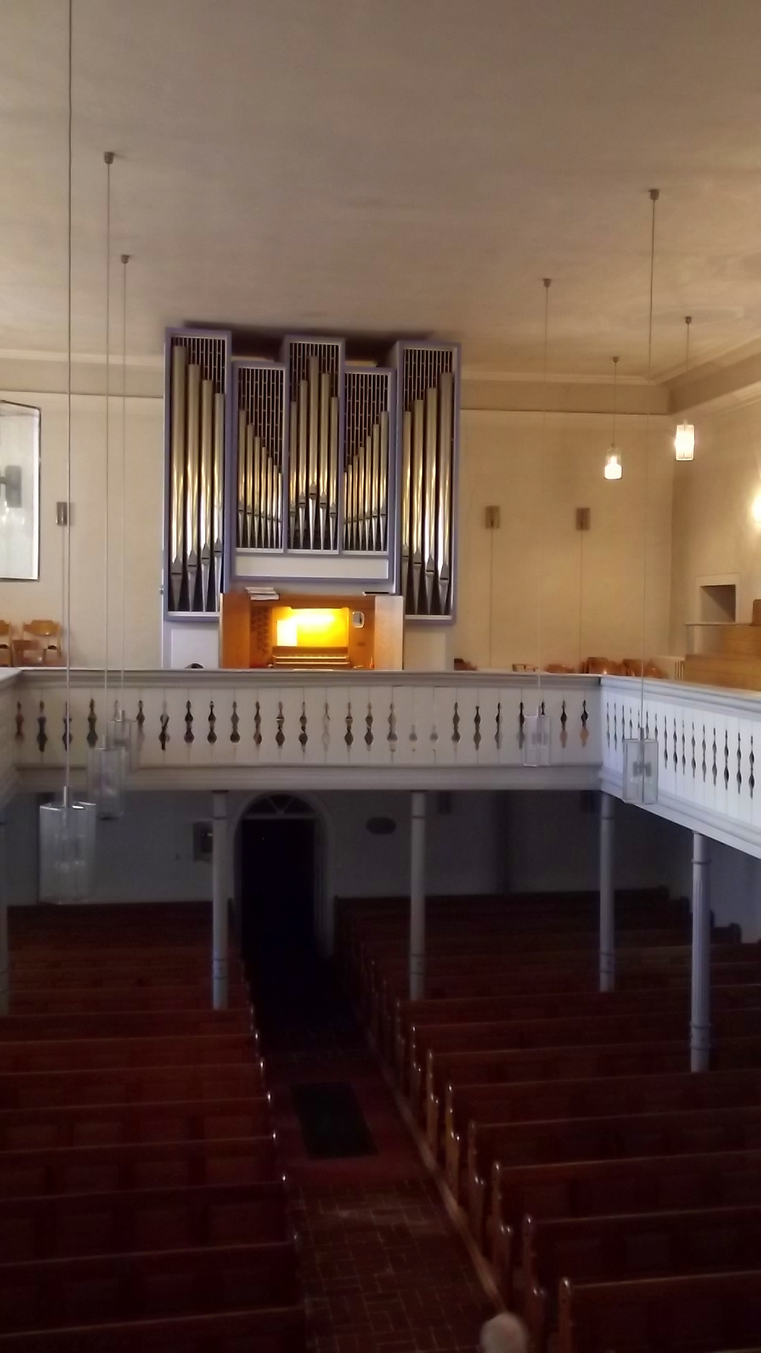 Jehmlich-Pipe-Organ of the protestantic church of Dirmingen, Saar